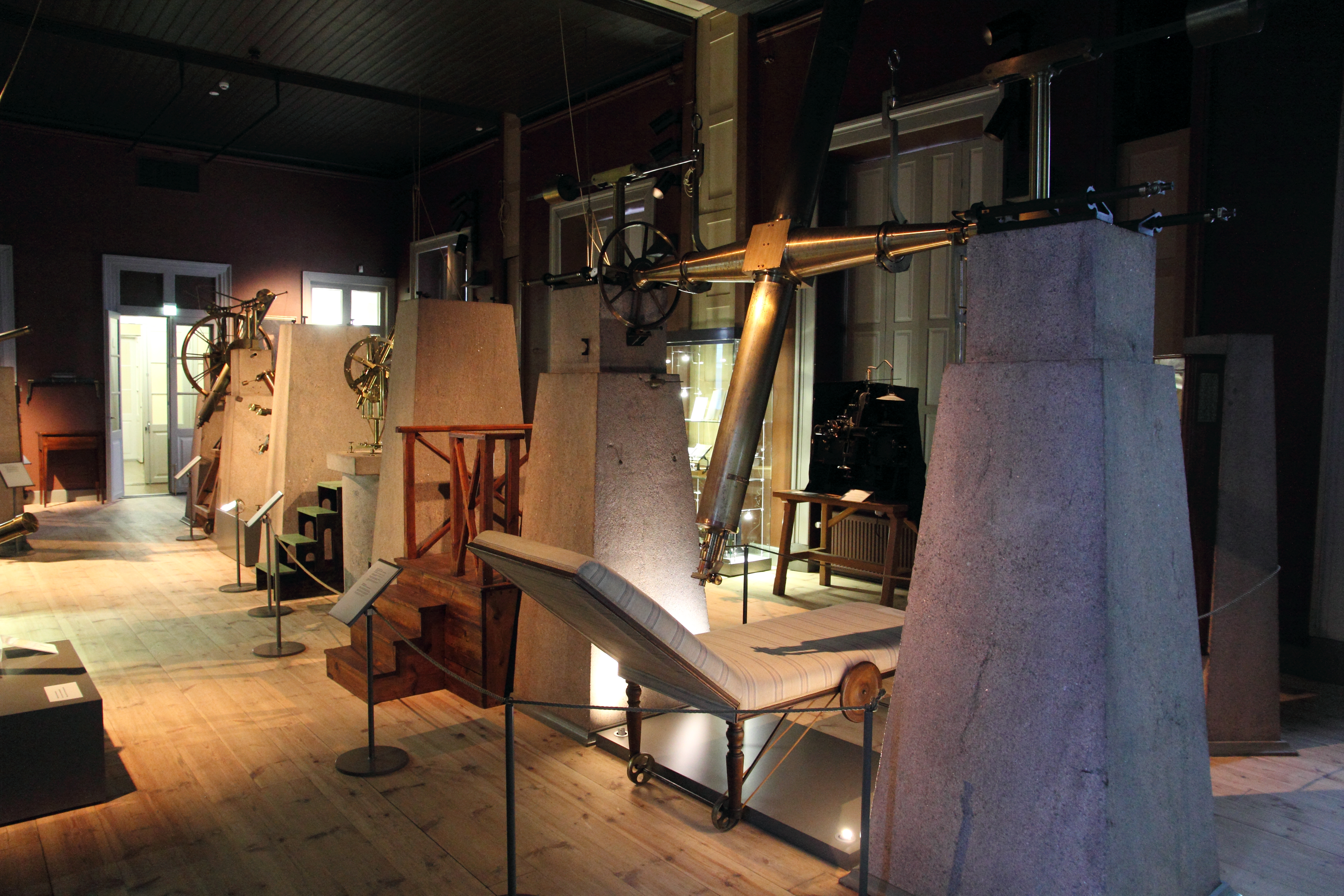 Meridian hall in Helsinki observatory, designed for meridian and transit observations on positions of stars moving past the north-south meridian. From front to back: grand transit instrument, vertical circle, heliometer and meridian circle.